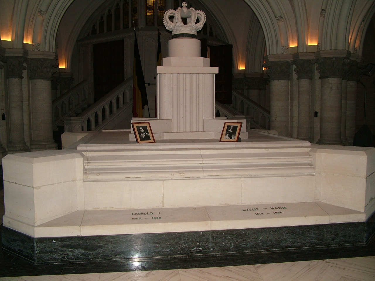 Tomb of King Leopold I of Belgium